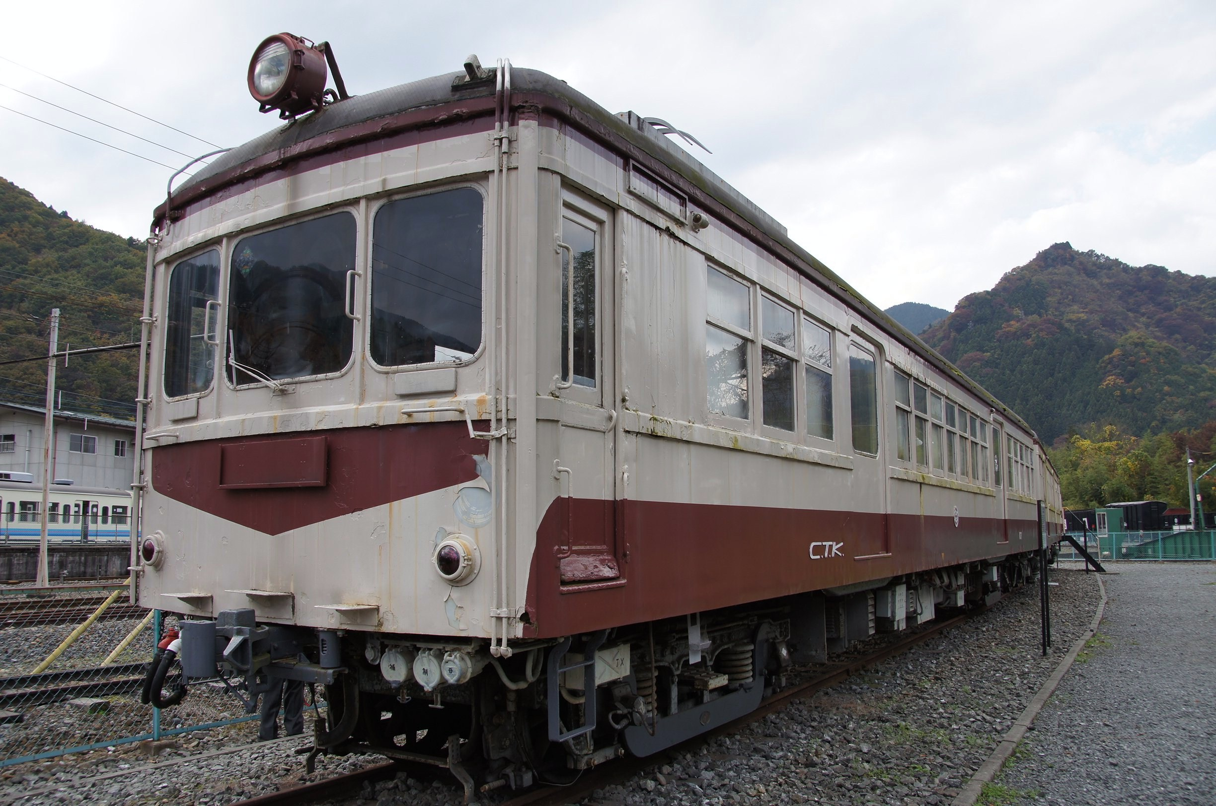 Preserved Chichibu Railway DeHa 100 EMU car number DeHa 107 at the Chichibu Railway Park next to Mitsumineguchi Station in Saitama Prefecture, Japan